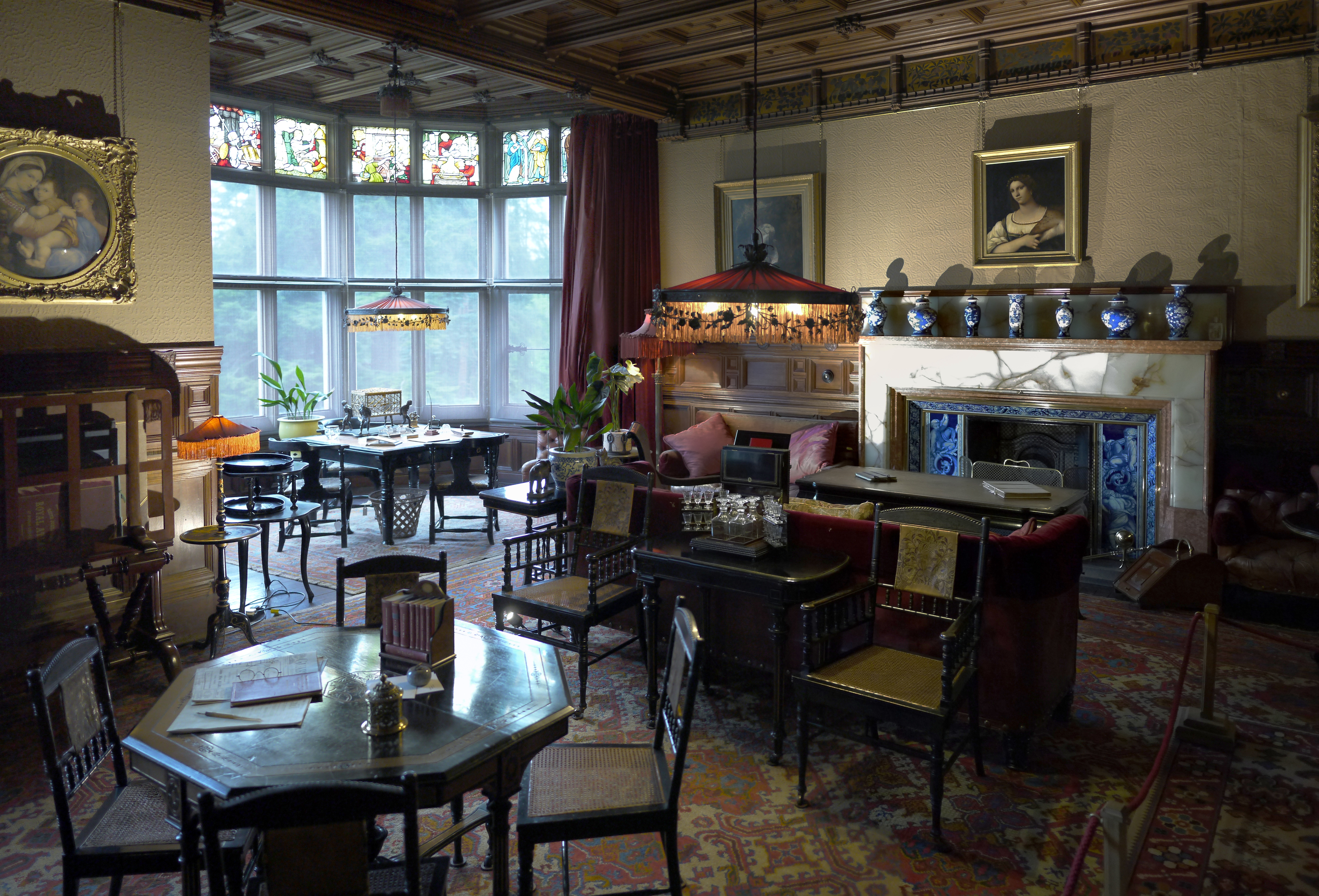 Cragside library